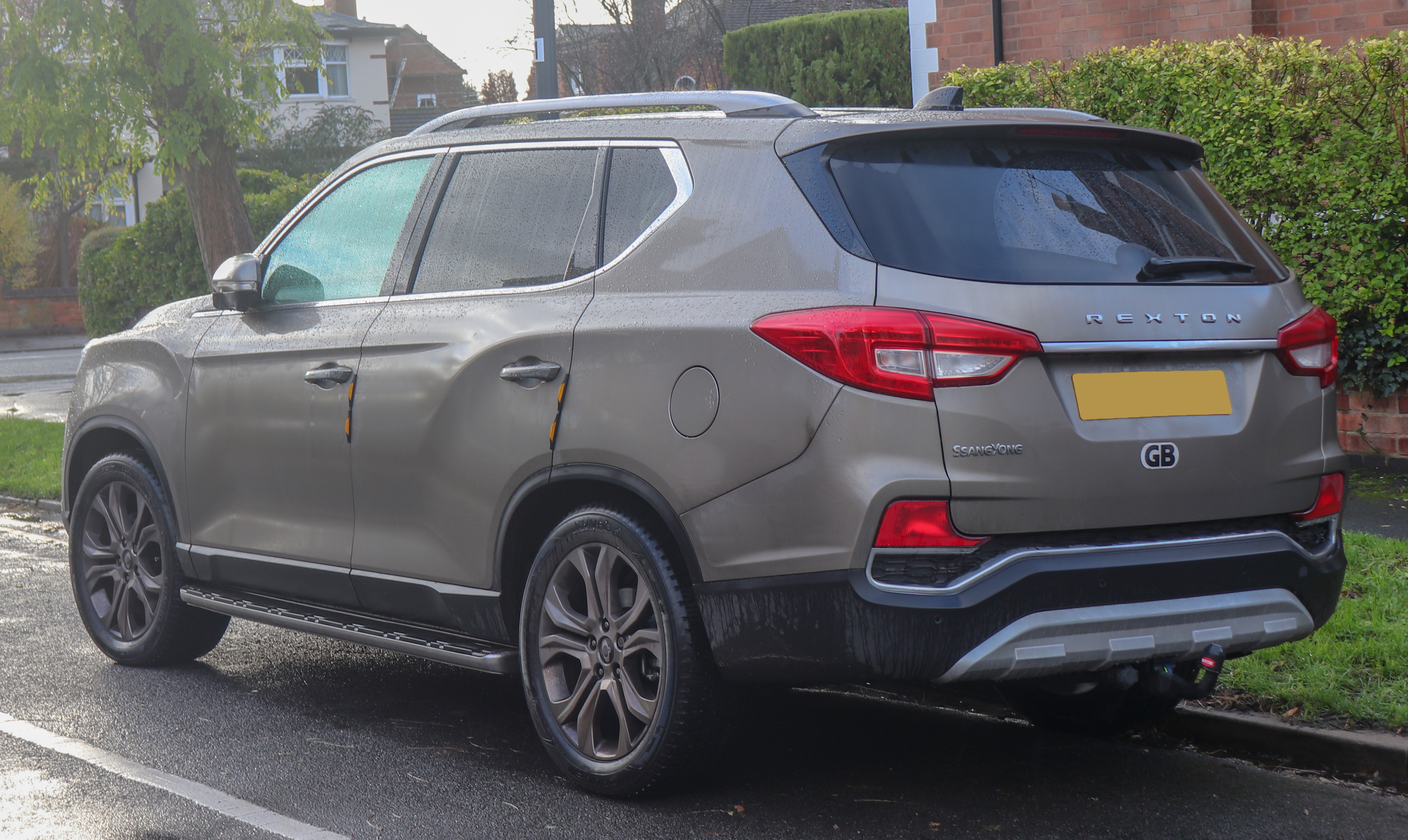 2018 SsangYong Rexton Ultimate Automatic 2.2 Rear